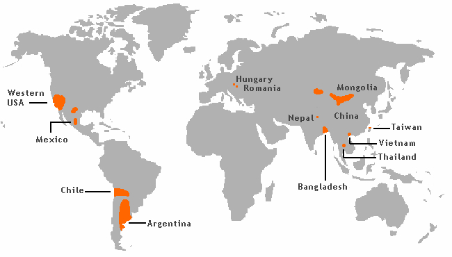 Arsenic risk areas worldwide Data source: "Arsenic contamination in south-east asia region: Technologies for arsenic mitigation" by M. Feroze Ahmed of the World Bank Group's "Water Week 2004" forum. Translated from: File:Weltkarte arsenrisikogebiete.gif